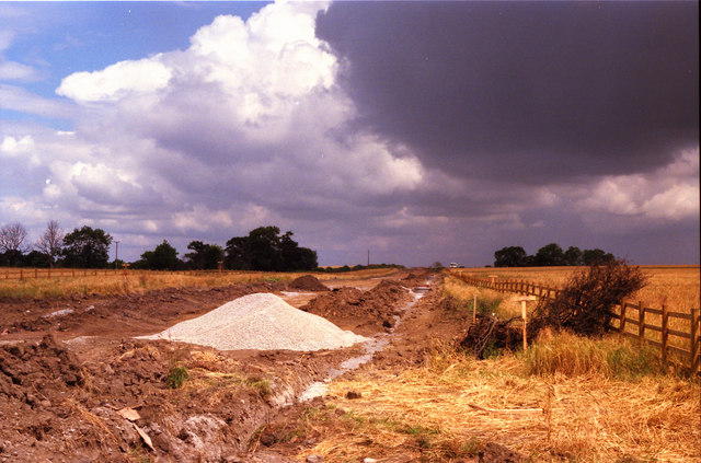 A1237 York outer ring road during construction Looking northwards